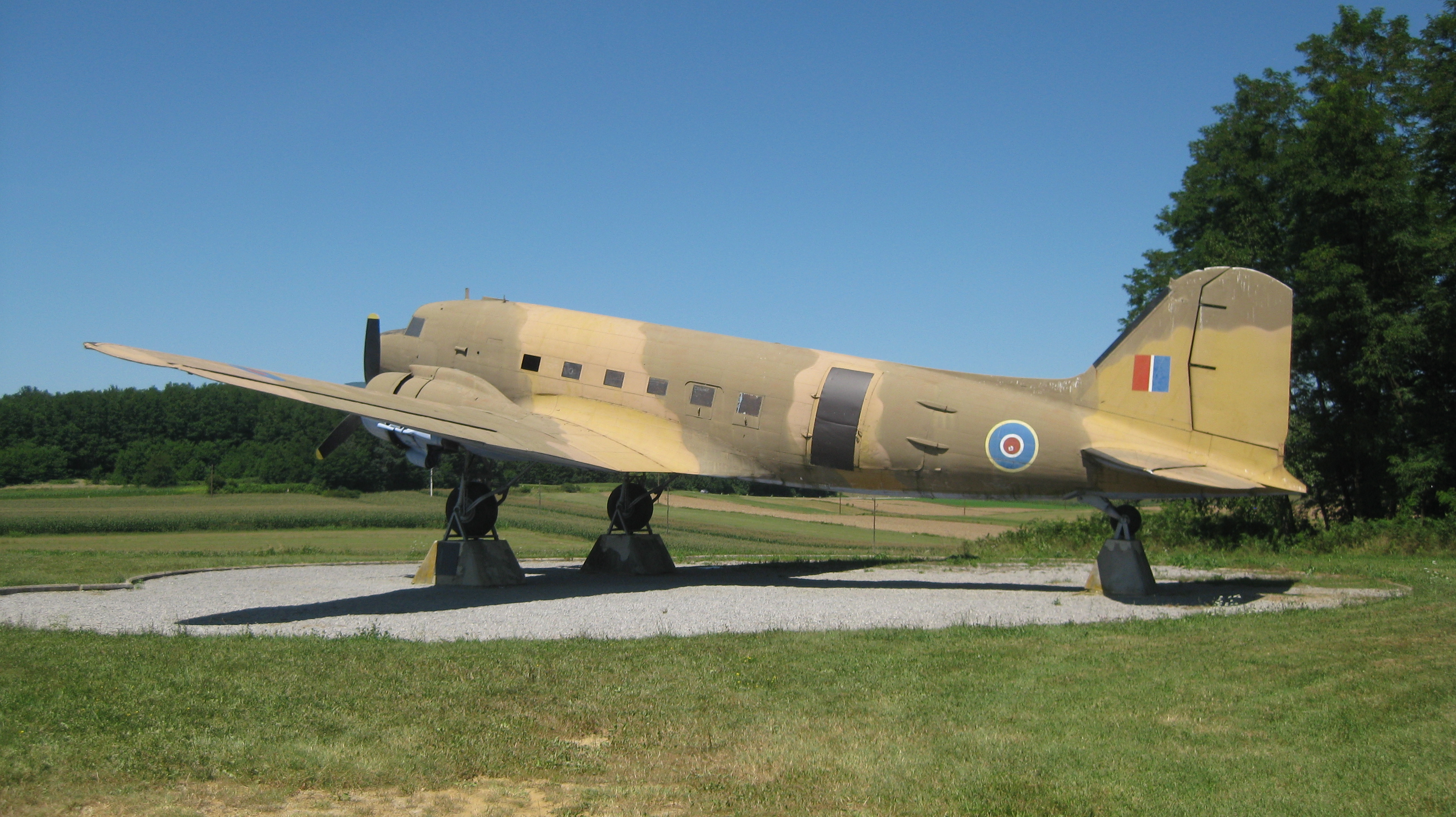 Dakota DC3 at Otok village near Kolpa river, Slovenia